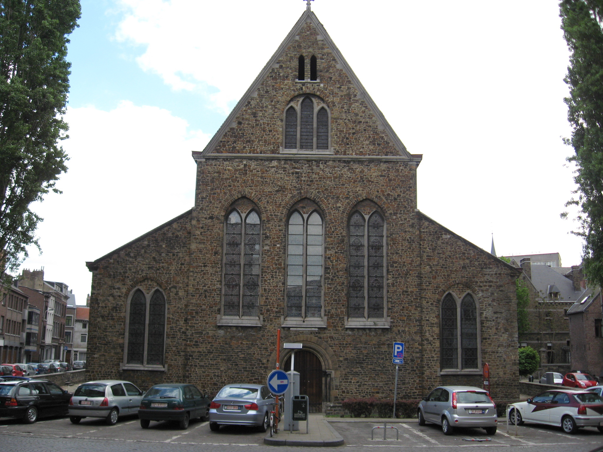 Church of Saint Christopher in Liège, Belgium